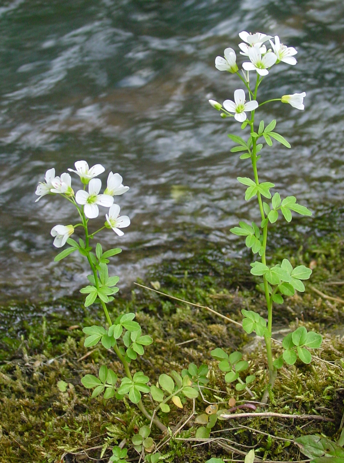 Cardamine amara, large bittercress, small flowering plant